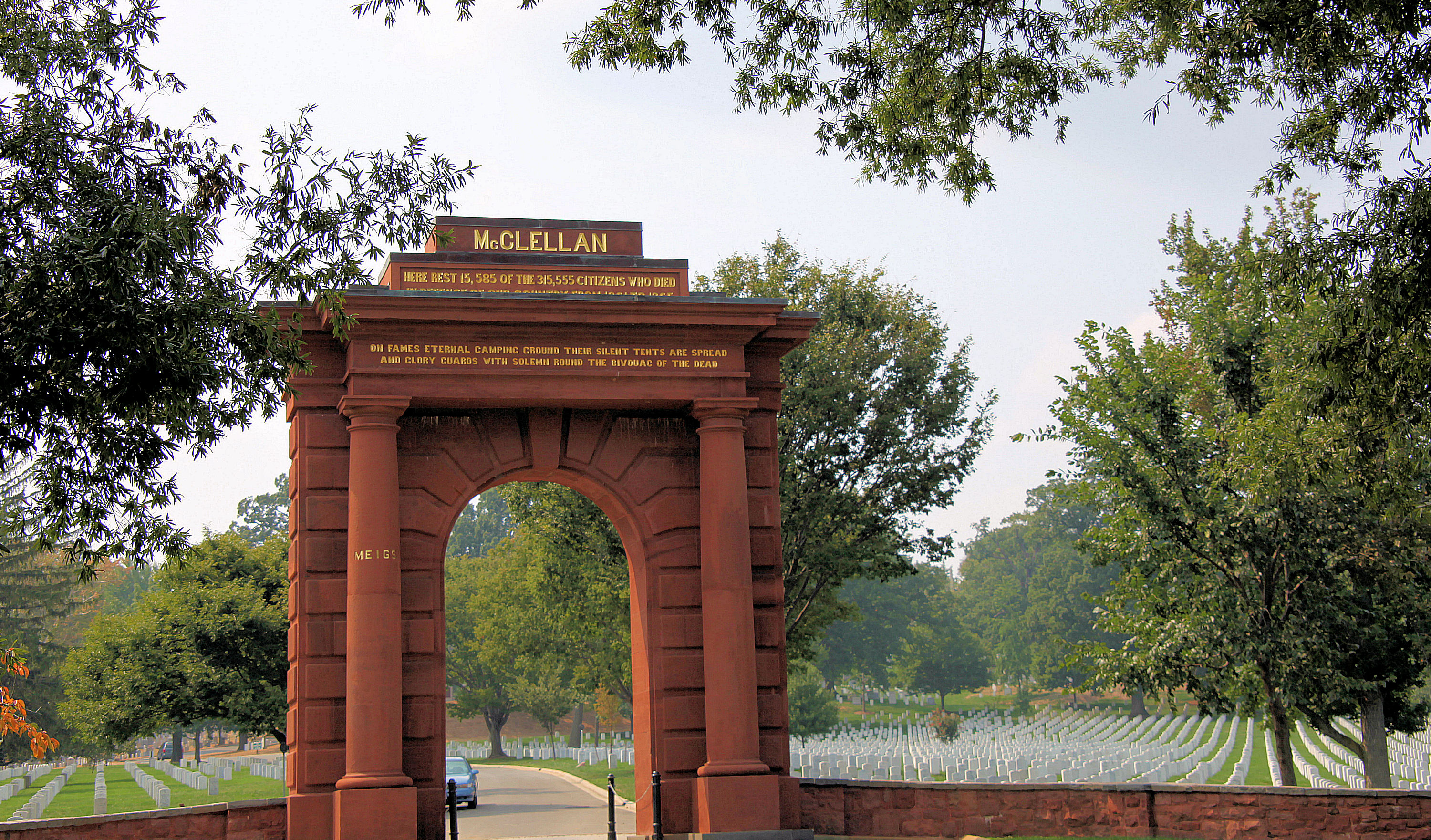 Looking west-northwest at the McClellan Gate at Arlington National Cemetery in Arlington, Virginia, in the United States. The headstones to the left are in Section 12. The headstones to the right lie in Section 33. U.S. Army Quartermaster General Montgomery C. Meigs had authority over Arlington National Cemetery after the American Civil War. At that time, the eastern boundary of the cemetery lay where Eisenhower Drive is located today. In 1871, Meigs ordered the a main ceremonial gate to Arlington be constructed just east of what is now the intersection of McClellan Avenue and Eisenhower Drive. Built of red sandstone and red brick, Meigs named it the McClellan gate after Major General George B. McClellan, who organized the Army of the Potomac and served from November 1861 to March 1862 as the general-in-chief of the Union Army. Meigs ordered the name "MCCLELLAN" inscribed into the gate's east=facing rectangular pediment in gilt letters. In the left main column of the gate's west face, Meigs had his own name inscribed as a tribute to himself. In 1900, the federal government transferred 400 acres of Arlington National Cemetery which lay between McClellan Gate and the Potomac River to the U.S. Department of Agriculture, which used it as an experimental farm. In 1932, Memorial Drive and the Hemicycle (now the Women in Military Service to America Memorial) were built as a new ceremonial entrance to the cemetery. The 400 acres were returned to Arlington National Cemetery just before World War II, which required the abandonment of the McClellan Gate as Arlington's main gate.